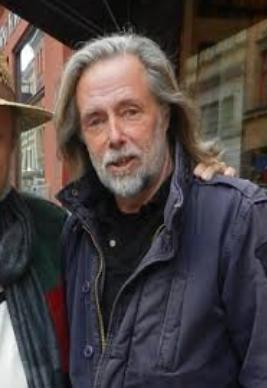 Swedish musician Göran LagerbergPlace: Götgatan, Stockholm, Sweden